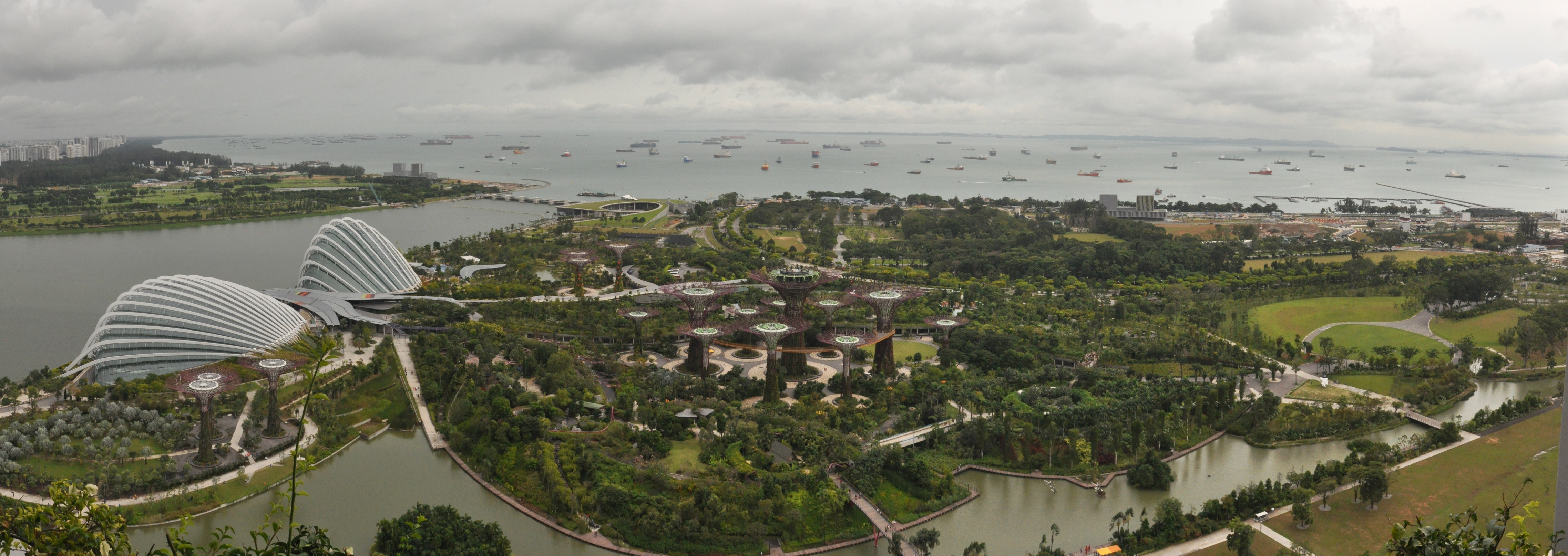 Panorama of the "Gardens by the Bay", Marina Bay, Singapore, with shipping at anchor in the distance. Photographed from the Marina Bay Sands hotel.